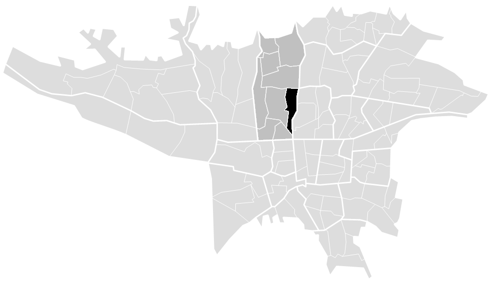 Location of Guisha (black) in Municipal District No. 2 (dark grey) of Tehran metropolis